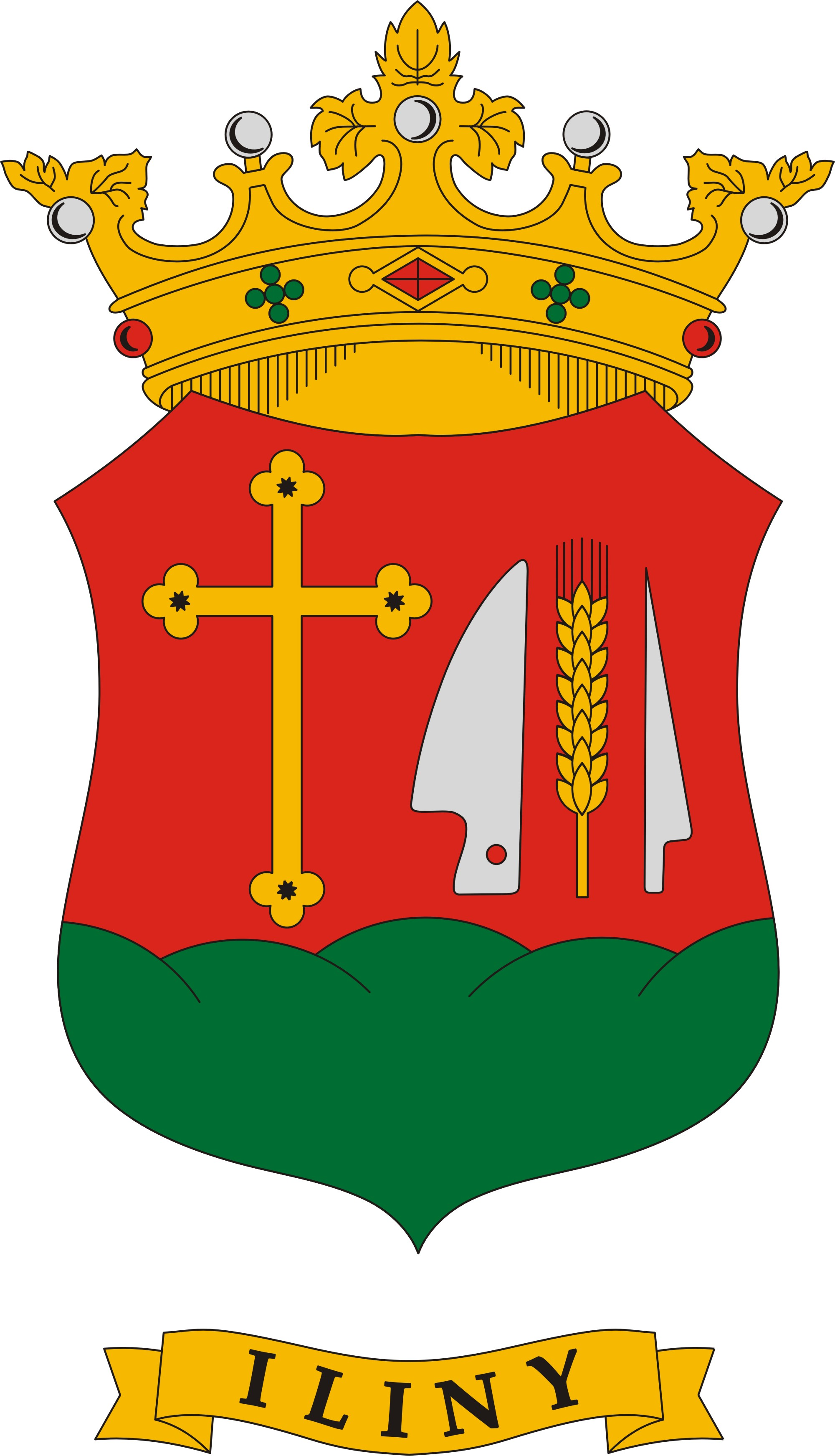 Coat of arms of Iliny, Hungary